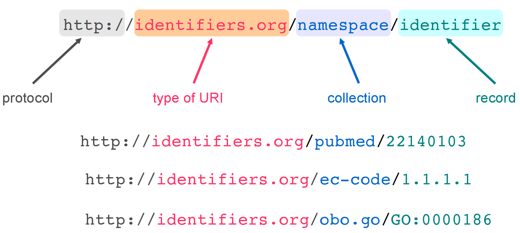 Structure and examles of URIs, used in life sciences.